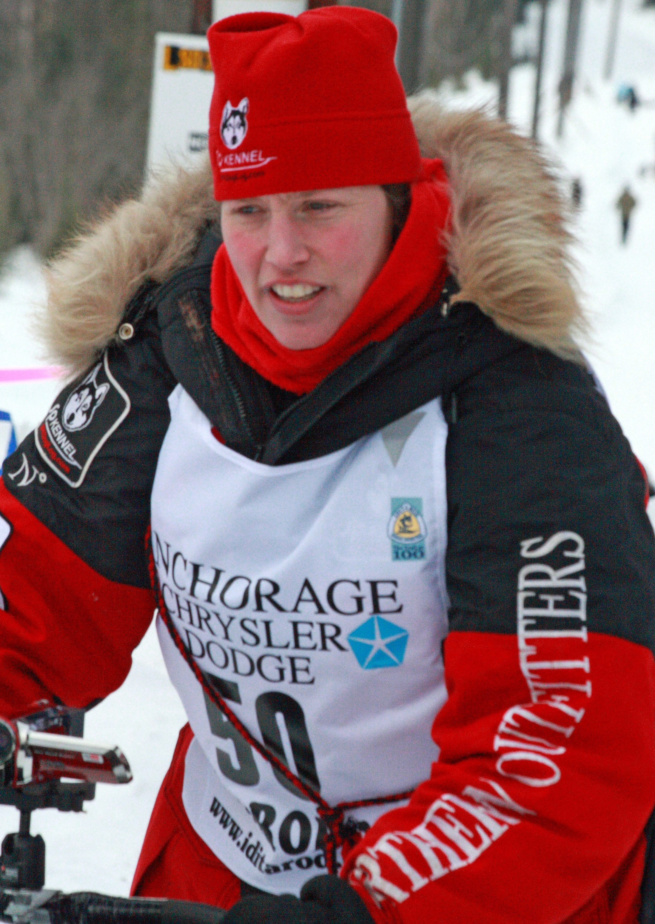 I took these photos on 6 March 2010 at the ceremonial start of the Iditarod dog sled race. The real start is from Willow. The Iditarod is known as "the last great race". It goes 1,100 miles from Willow to Nome through unforgiving terrain and downright nasty weather. I took these photos between Goose Lake and APU. What a great day to be an Alaskan!